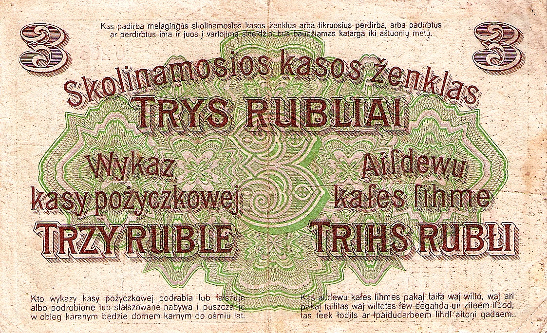 The reverse side of a 3 rubles banknote issued for use in the Ober-Ost, 1916